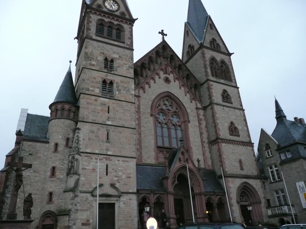 Main Portal of the Pfarrkirche St. Peter in Heppenheim (Bergstraße)